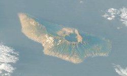 This is an enhanced version of :Image:La_palma_volcano.jpg, which is public domain. The original picture was cropped and the colouring improved with GIMP. Satellite photo of La Palma, Canary Islands. (North is in the lower right.) The grand crater in the center is the Caldera de Taburiente. The Cumbre Vieja is a ridge to the South (upper left) of the caldera.